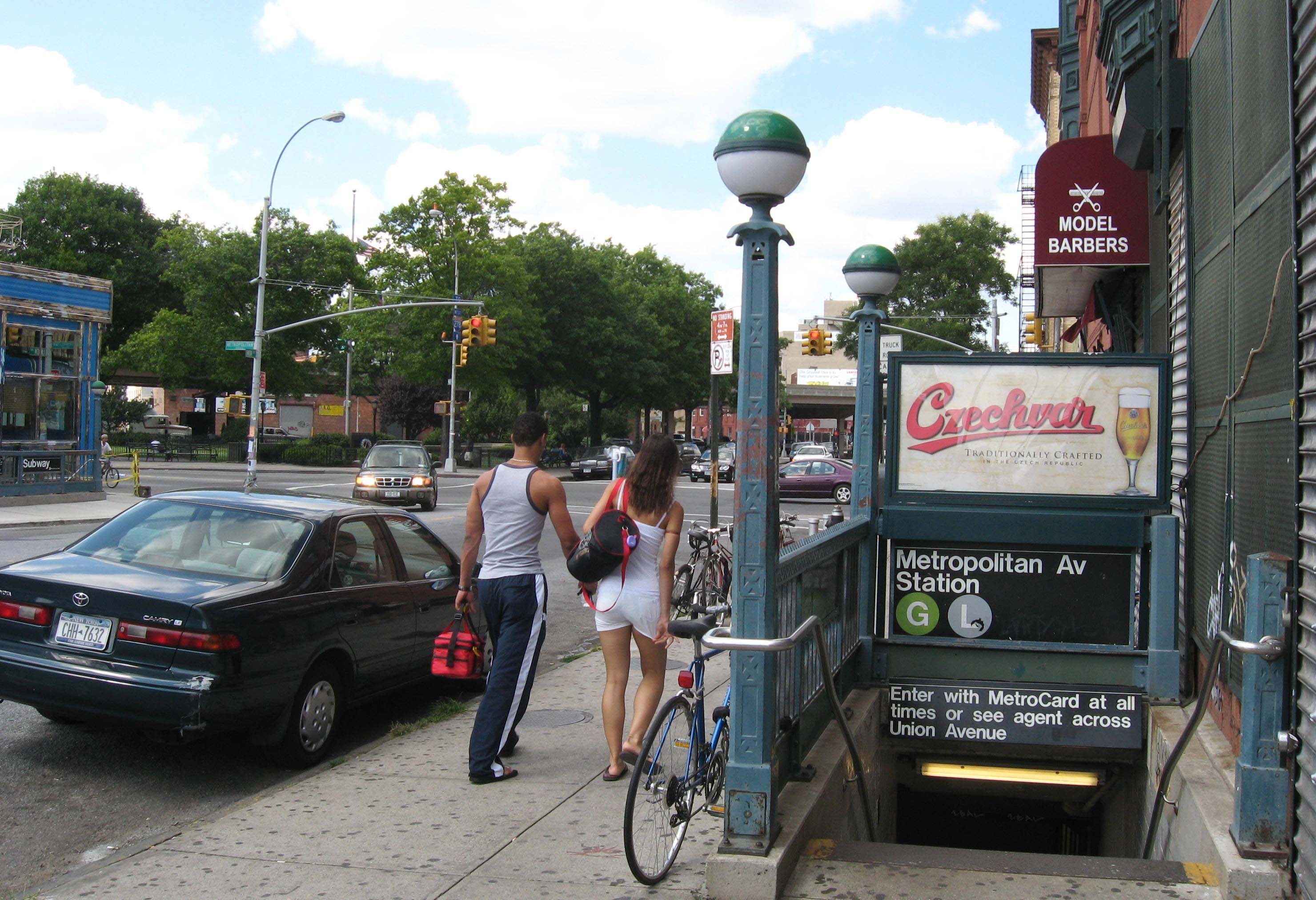 Looking north along Union Avenue at Metropolitan Avenue (IND Crosstown Line) stair on a mostly sunny midday